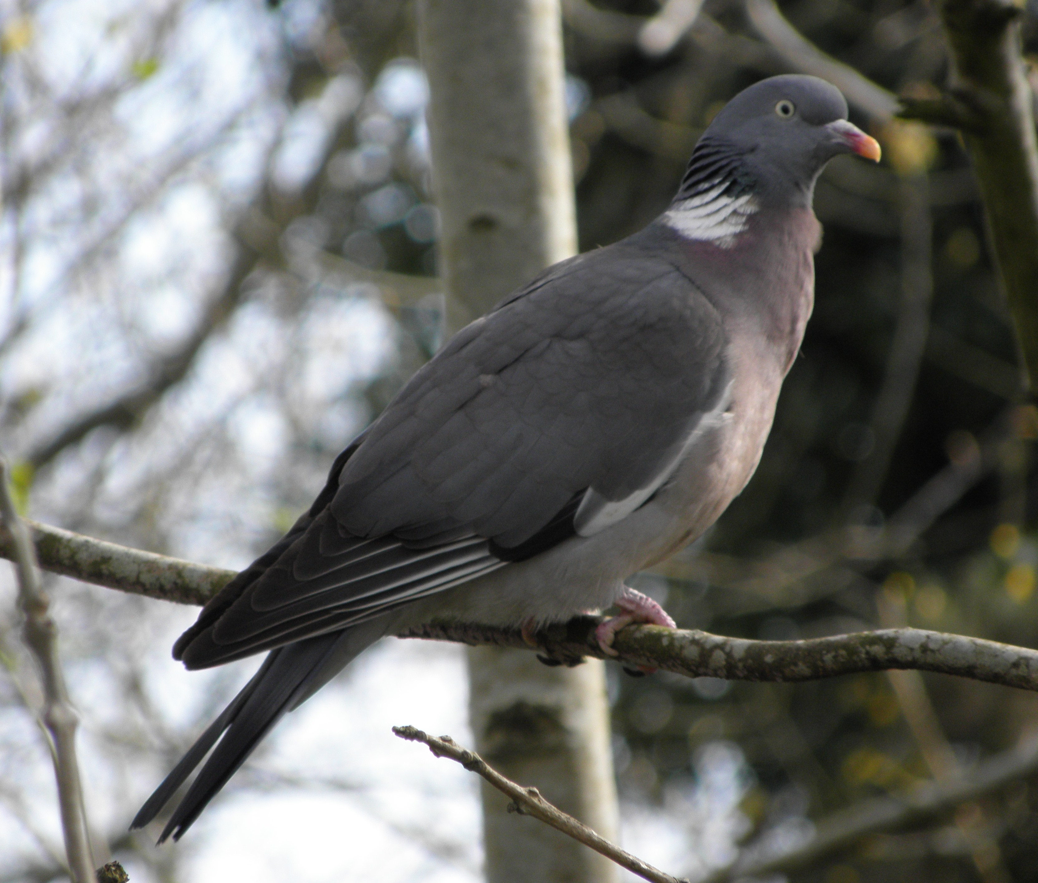 An adult Wood Pigeon perching in a tree in Co. Down, Ireland.